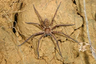 female Heteropoda simplex from Okinawa.